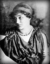 Florence Farr in Yeats' play Kathleen Ni Houlihan in 1904.